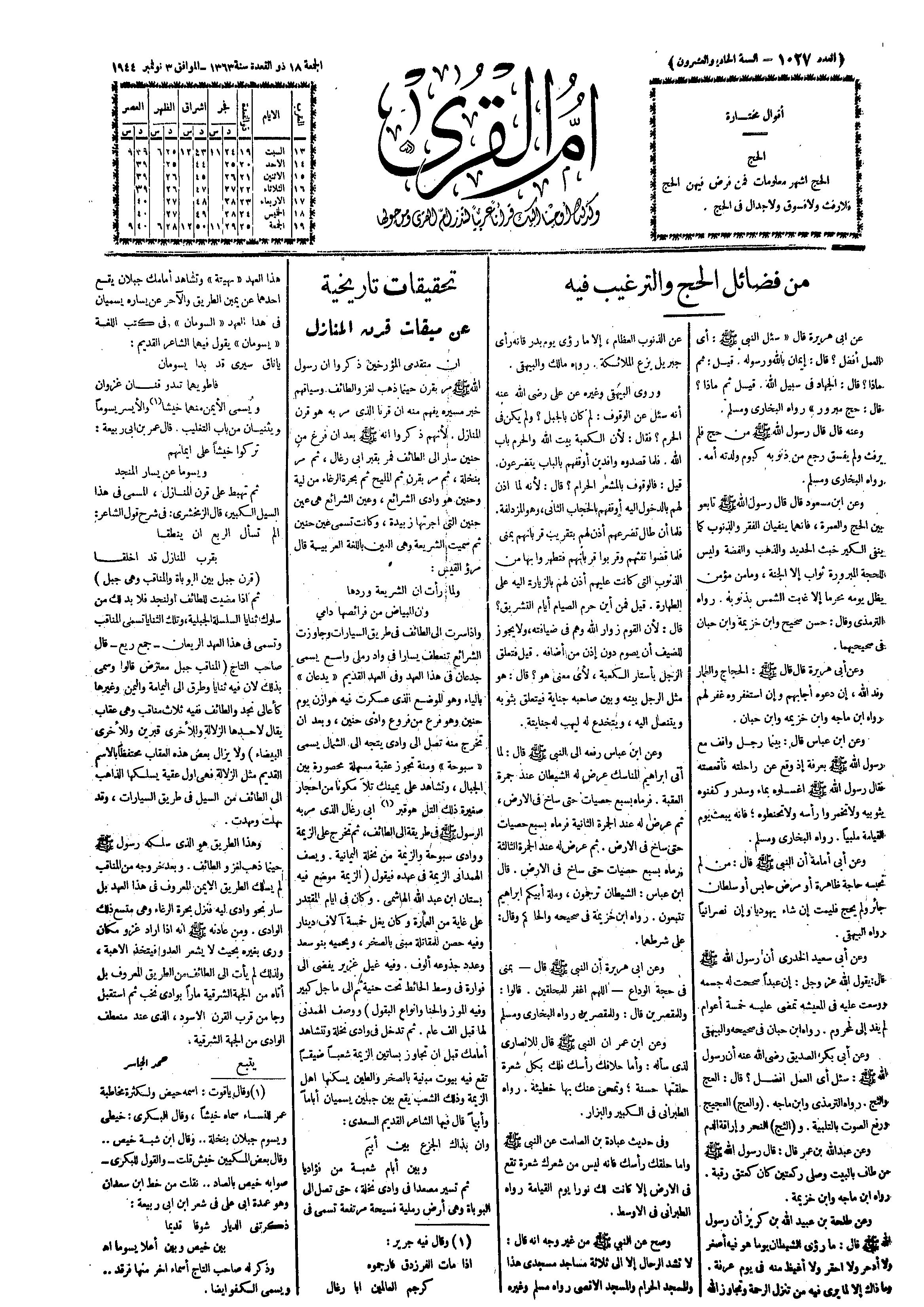 Caver NO.1027 of um al-qura (newspaper) arabic language